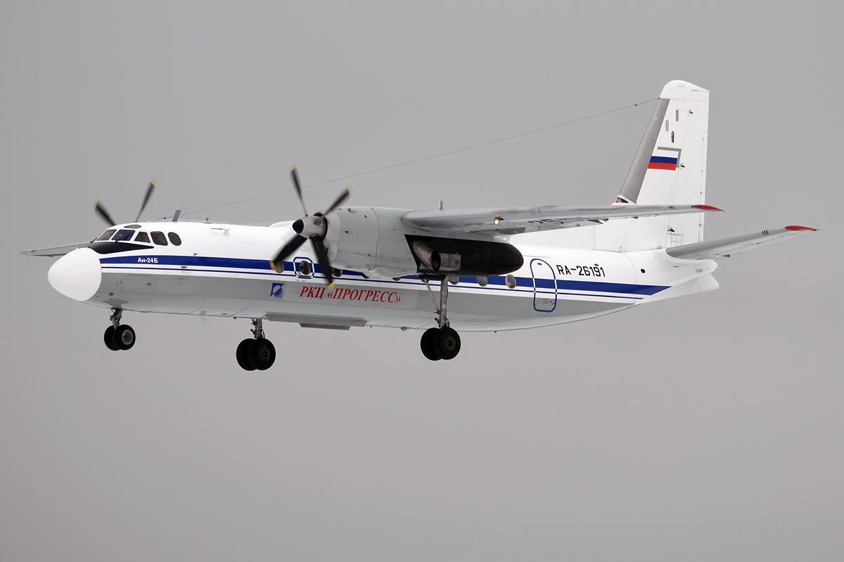 TsSKB-Progress, RA-26191, Antonov An-24